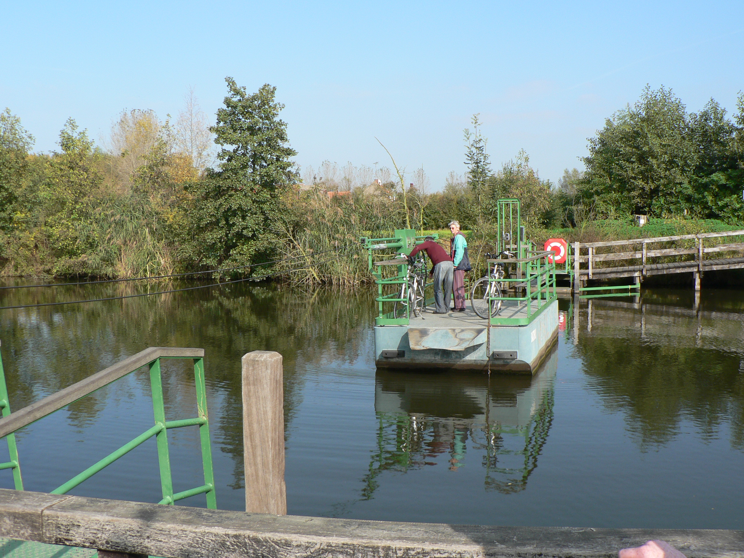 do-it-yourself ferry, vosselareput, Bachte-Maria-Leerne, Belgium